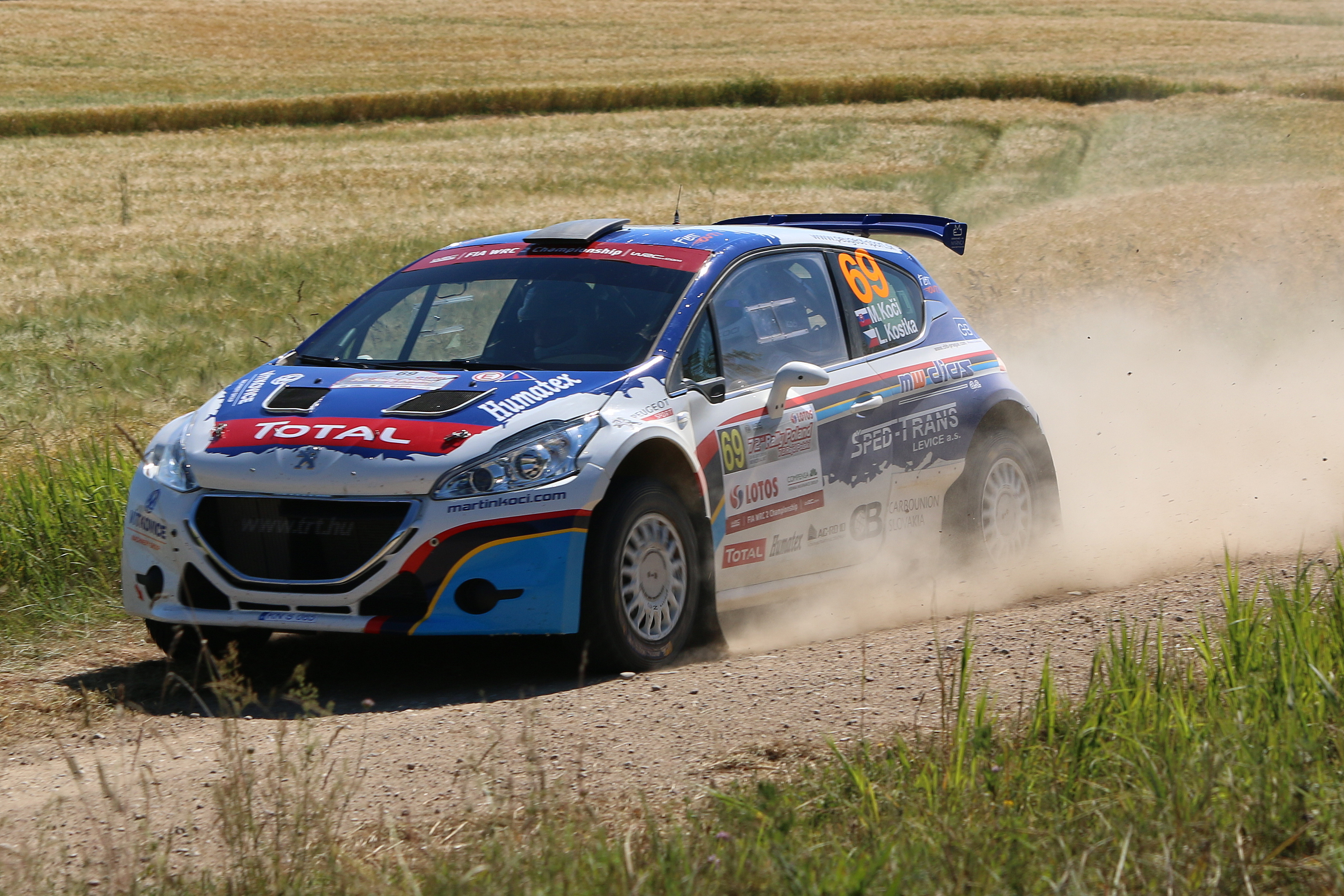 Martin Koči, OS 10 Mazury, 72nd LOTOS Rally Poland